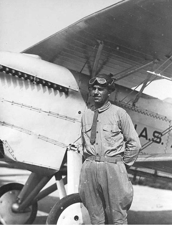 First Lieutenant Christian F. Schilt, USMC.Standing beside a Curtiss F6C fighter aircraft at Naval Air Station, Anacostia, Washington, D.C. in August 1925.